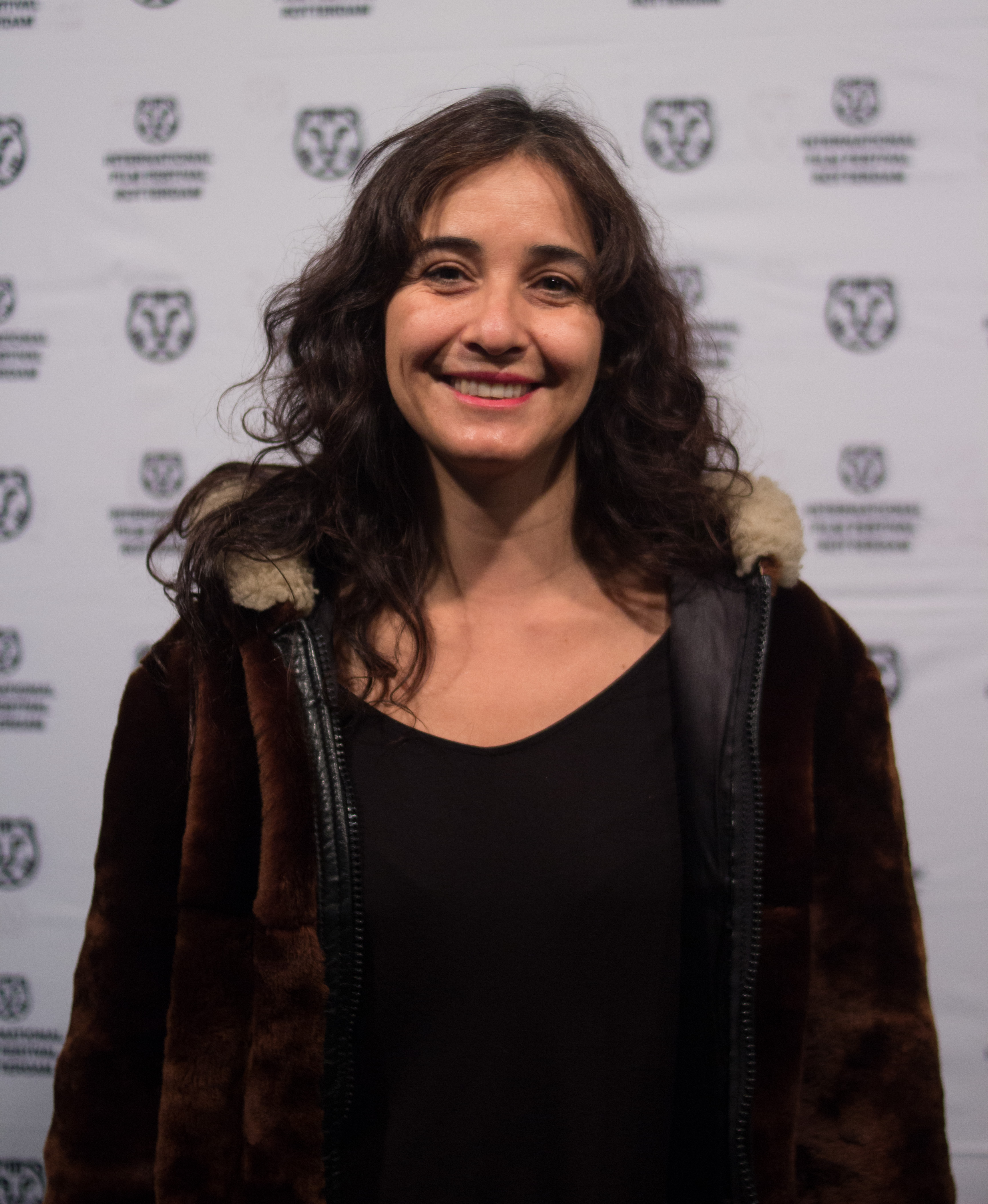 Alicia Scherson at the premiere of Family Life